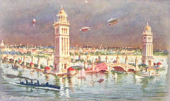 Postcard of the 1907 Jamestown Exposition featuring steamboats, yachts, and hot air balloons.